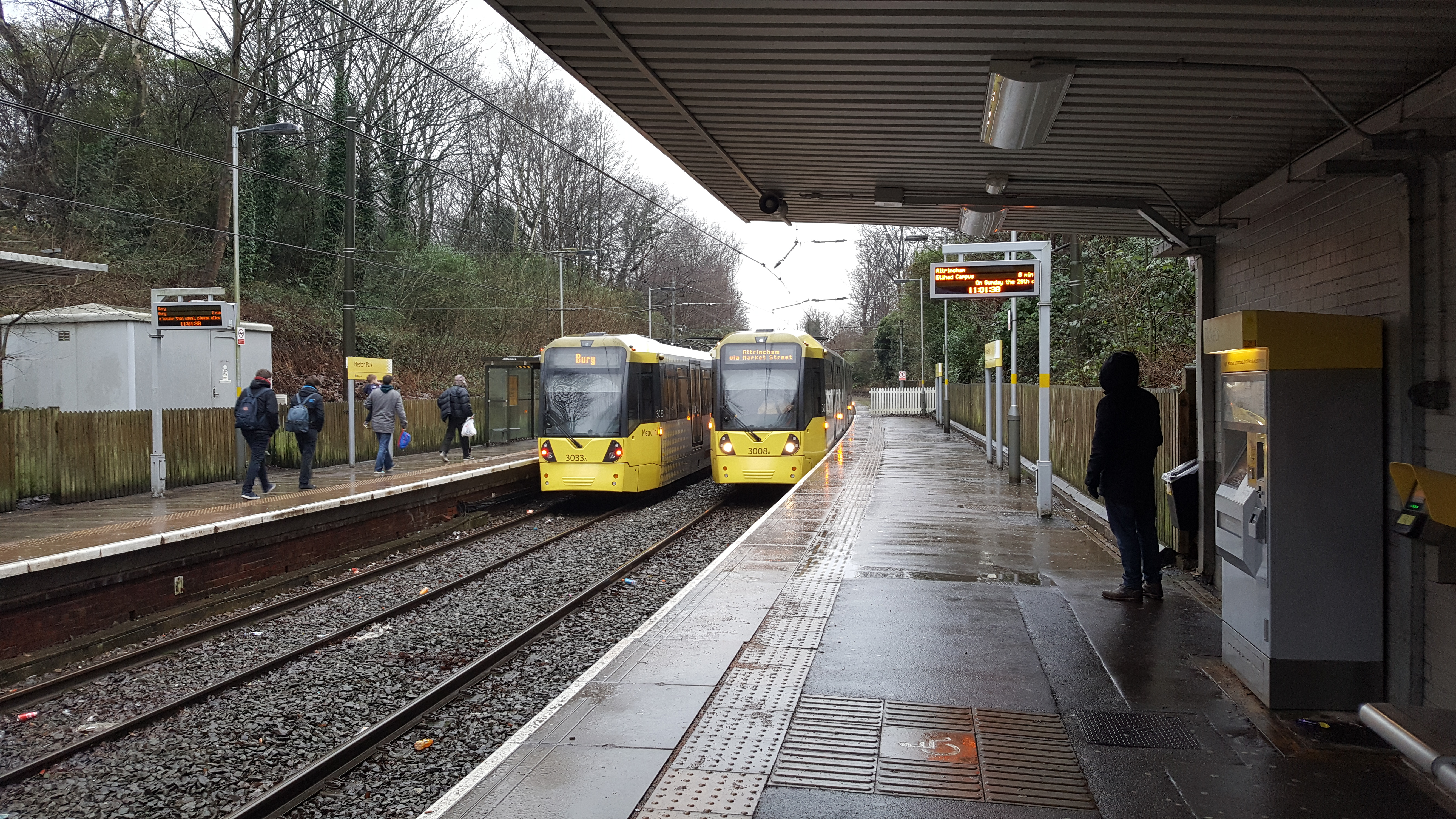 Two M5000s at Heaton Park